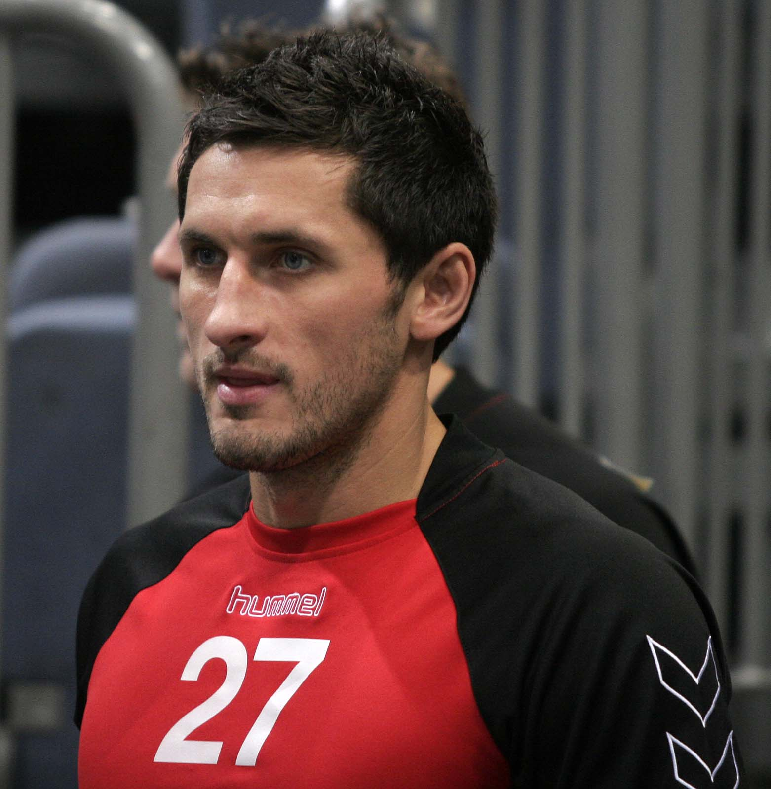 Alexander Petersson, handball player of SG Flensburg-Handewitt, in the Kölnarena prior the gane VfL Gummersbach - SG Flensburg-Handewitt